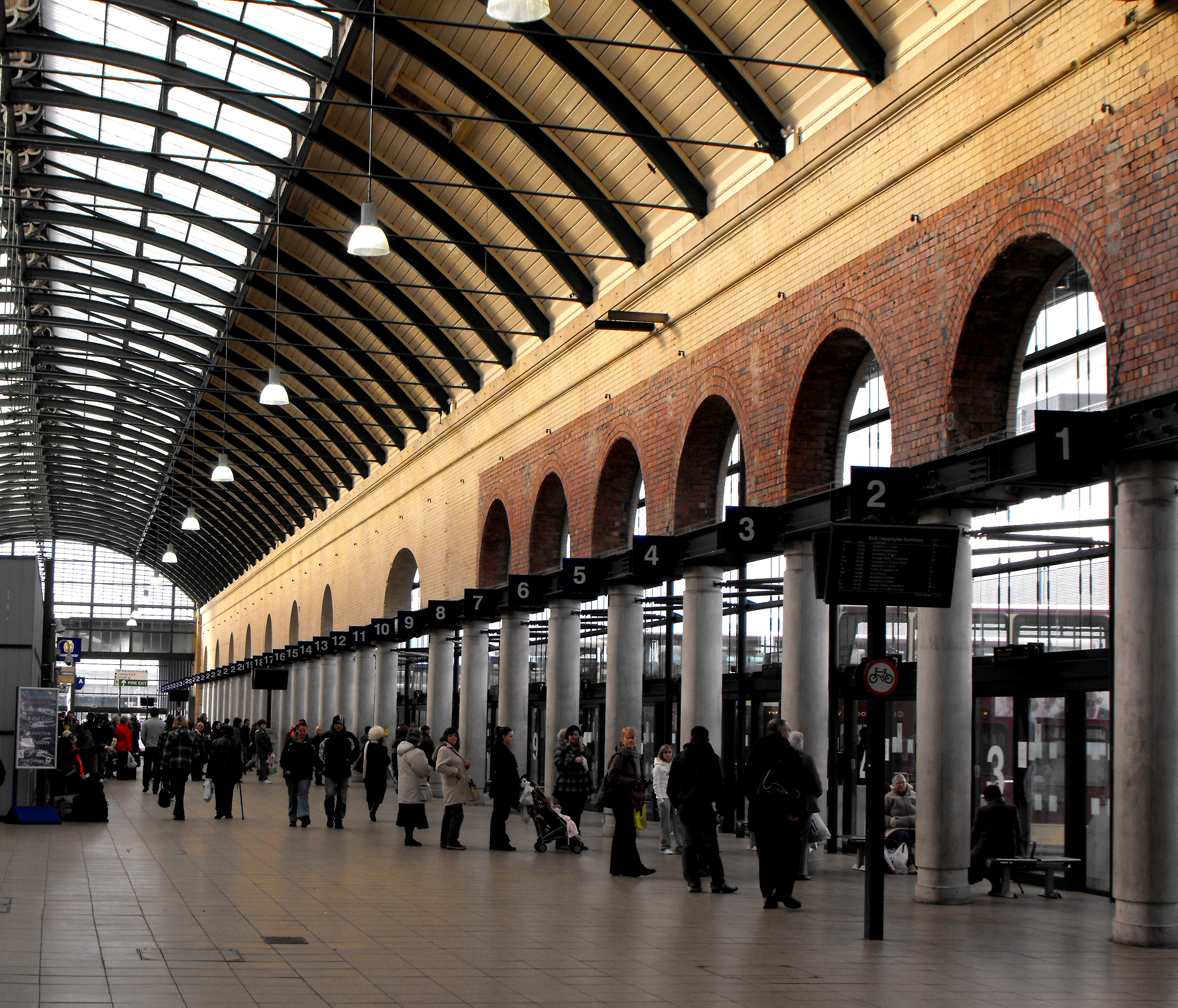 The bus concourse, Hull Paragon Interchange, Hull Paragon Interchange.